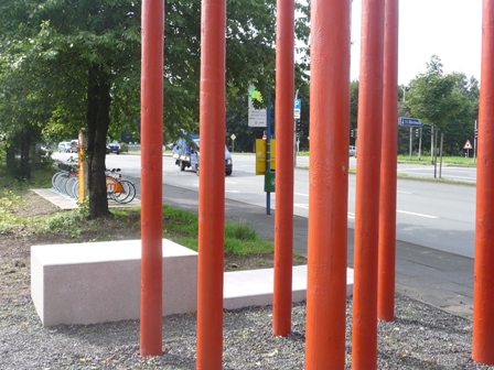 The "park service station" Bottrop.